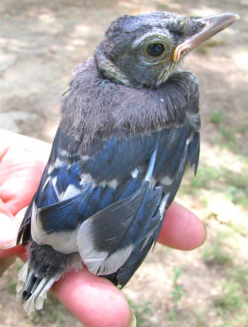 A Bluejay nestling from Mississippi